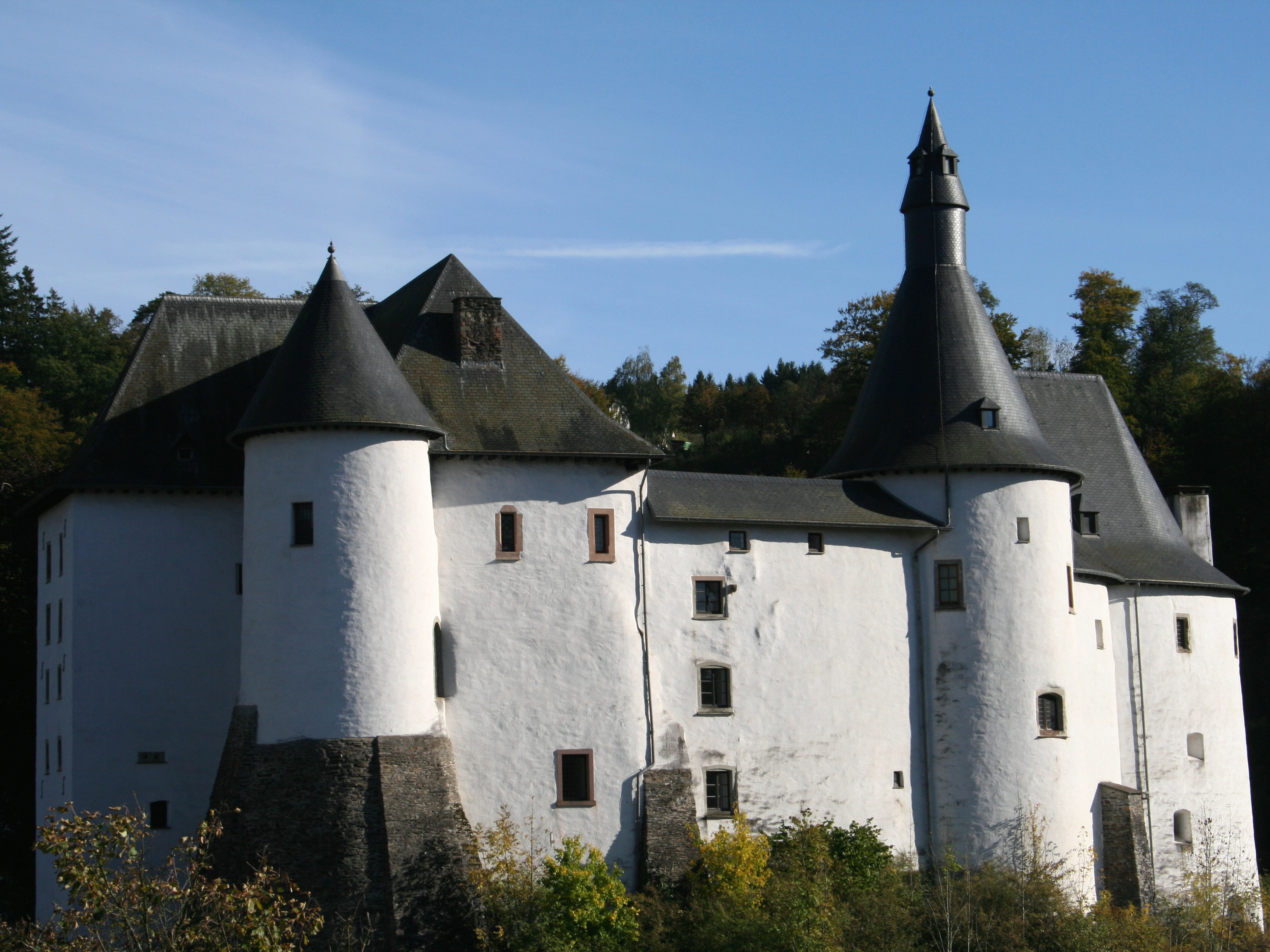 Clervaux (Luxembourg) - The old castle (XIIth century).